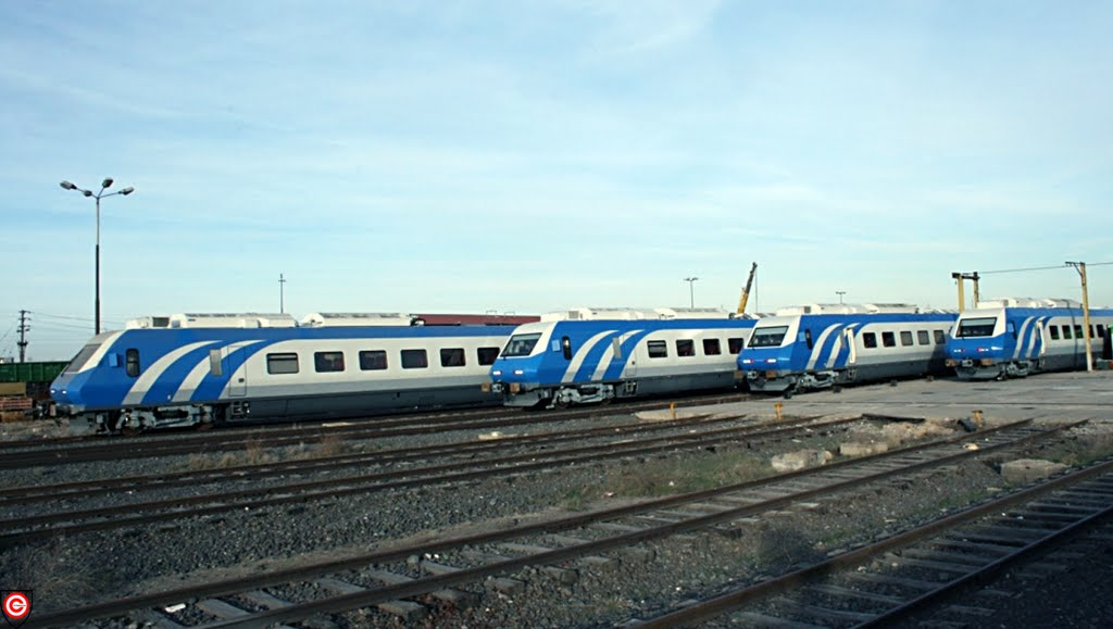 Wagon Pars company (WAPCO), rolling stock manufacturer of Iran, manufactures Siemens diesel locomotives in Iran.